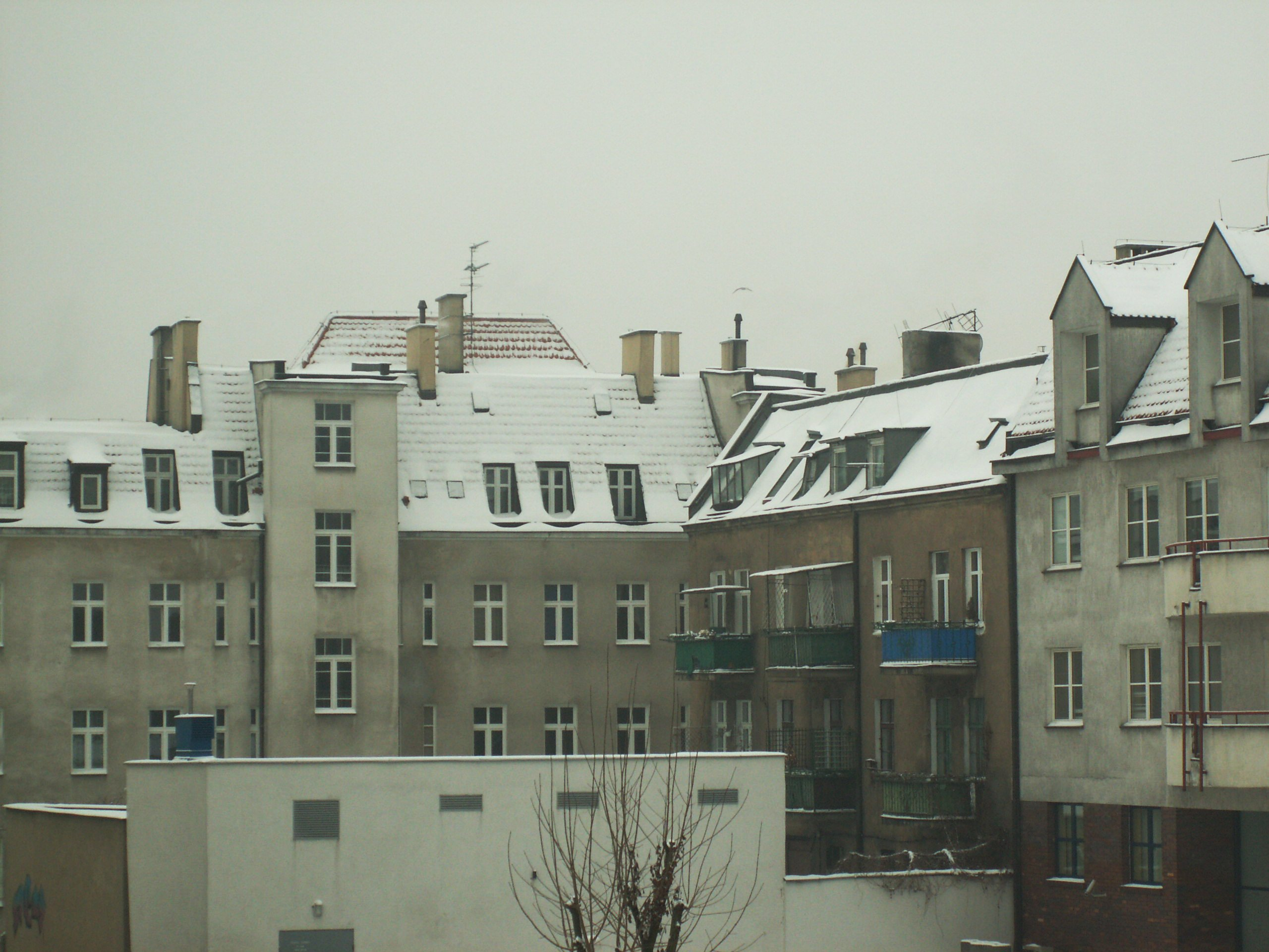 Foto: by me - Entereczek Where: Poznań, Poland Date:2006/01/21 Time:11:39.40 Camera:Minolta Dimage Z5